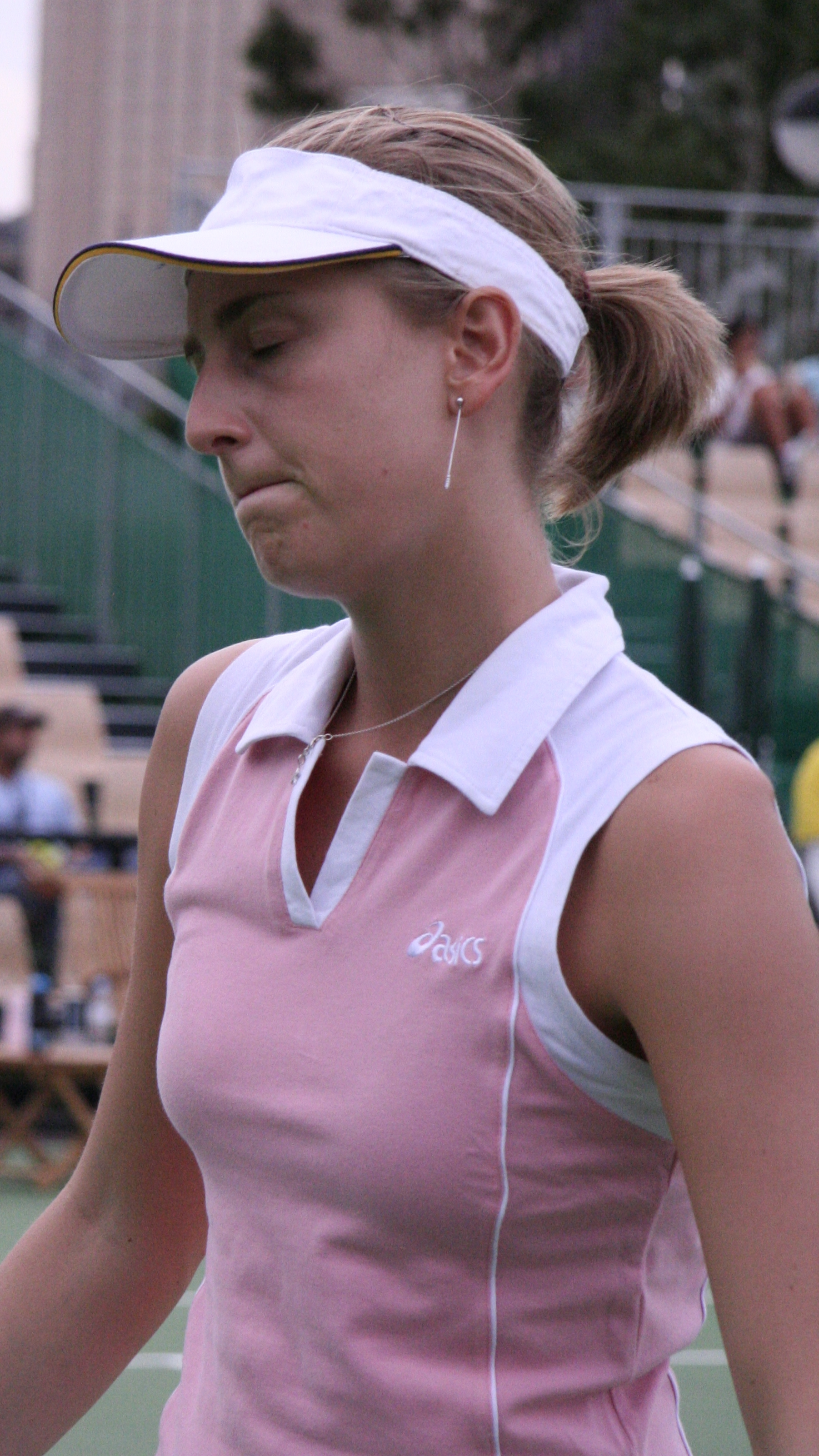 Mara Santangelo at the 2007 Australian Open, during her first-round womens doubles match, partnering Anna Chakvetadze.